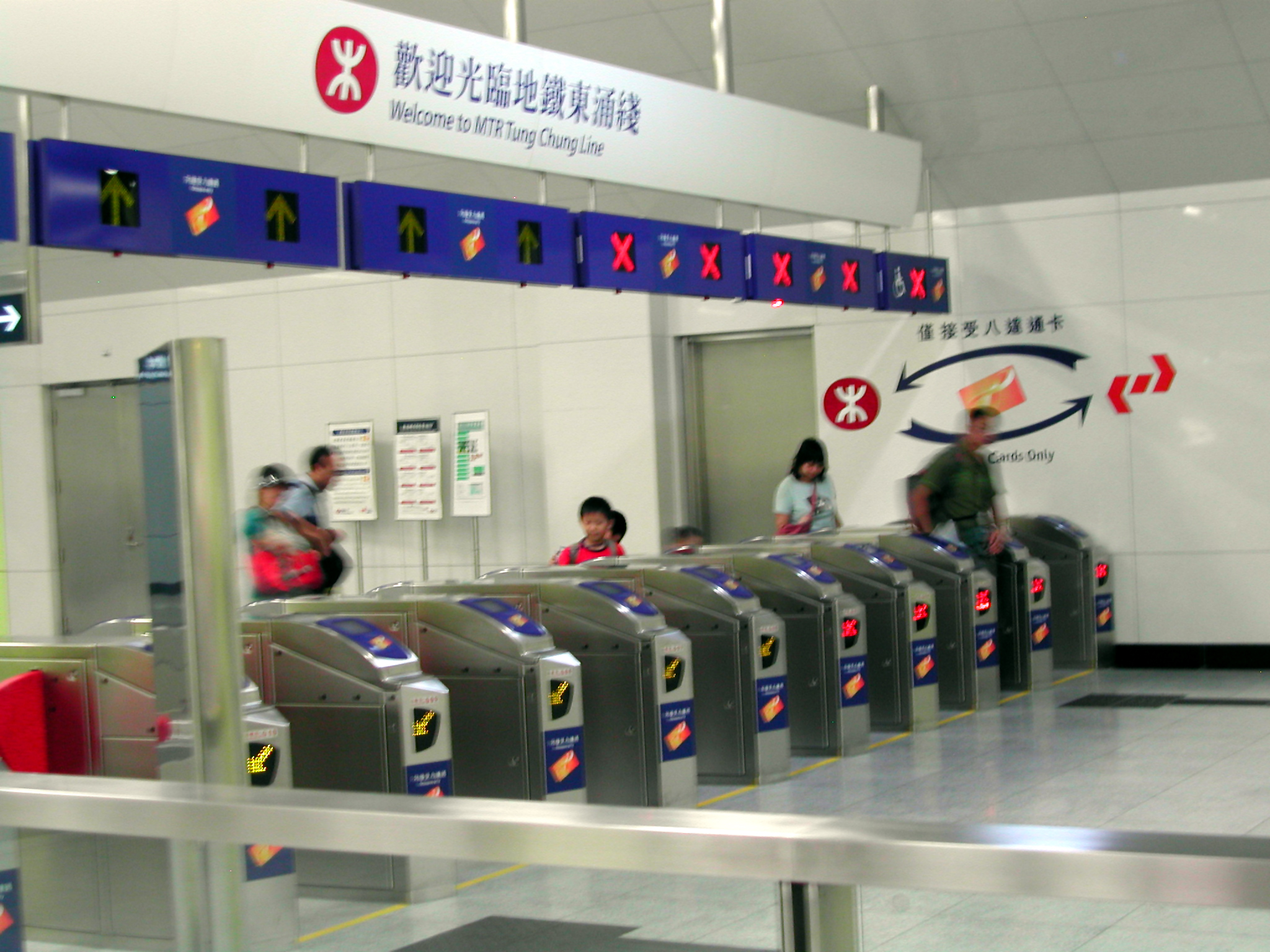 Ticket barriers for interchange between former MTR and Kowloon-Canton Railway systems on Nam Cheong station concourse